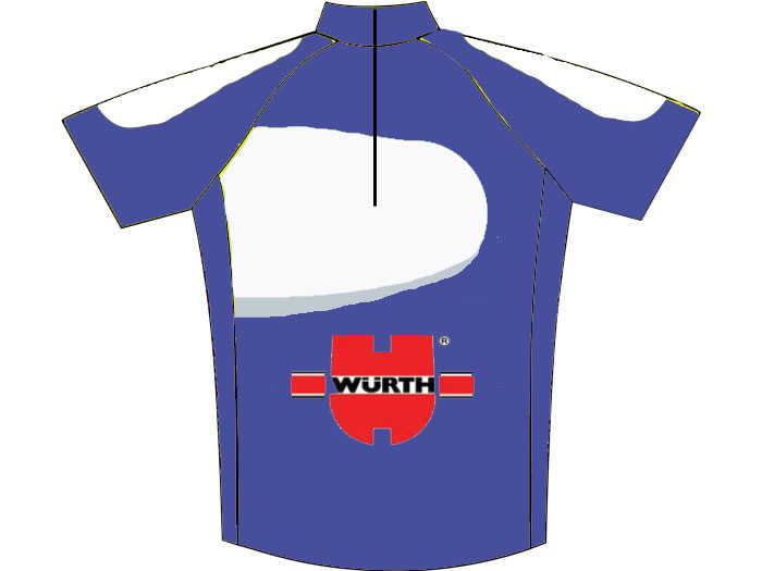 Wurth team versione Tour de Suisse 2006 Autor: Jiří Žemlička